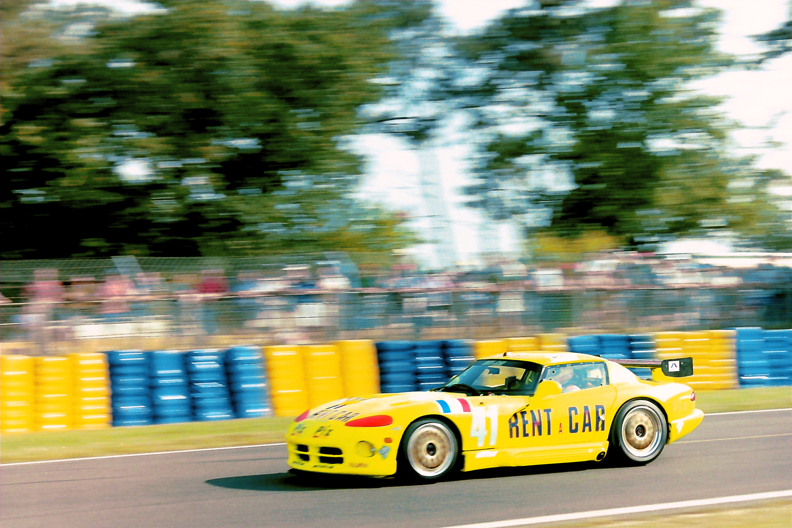 Dodge Viper RT10 - Francois Migault, Denis Morin & Philippe Gache at the 1994 Le Mans